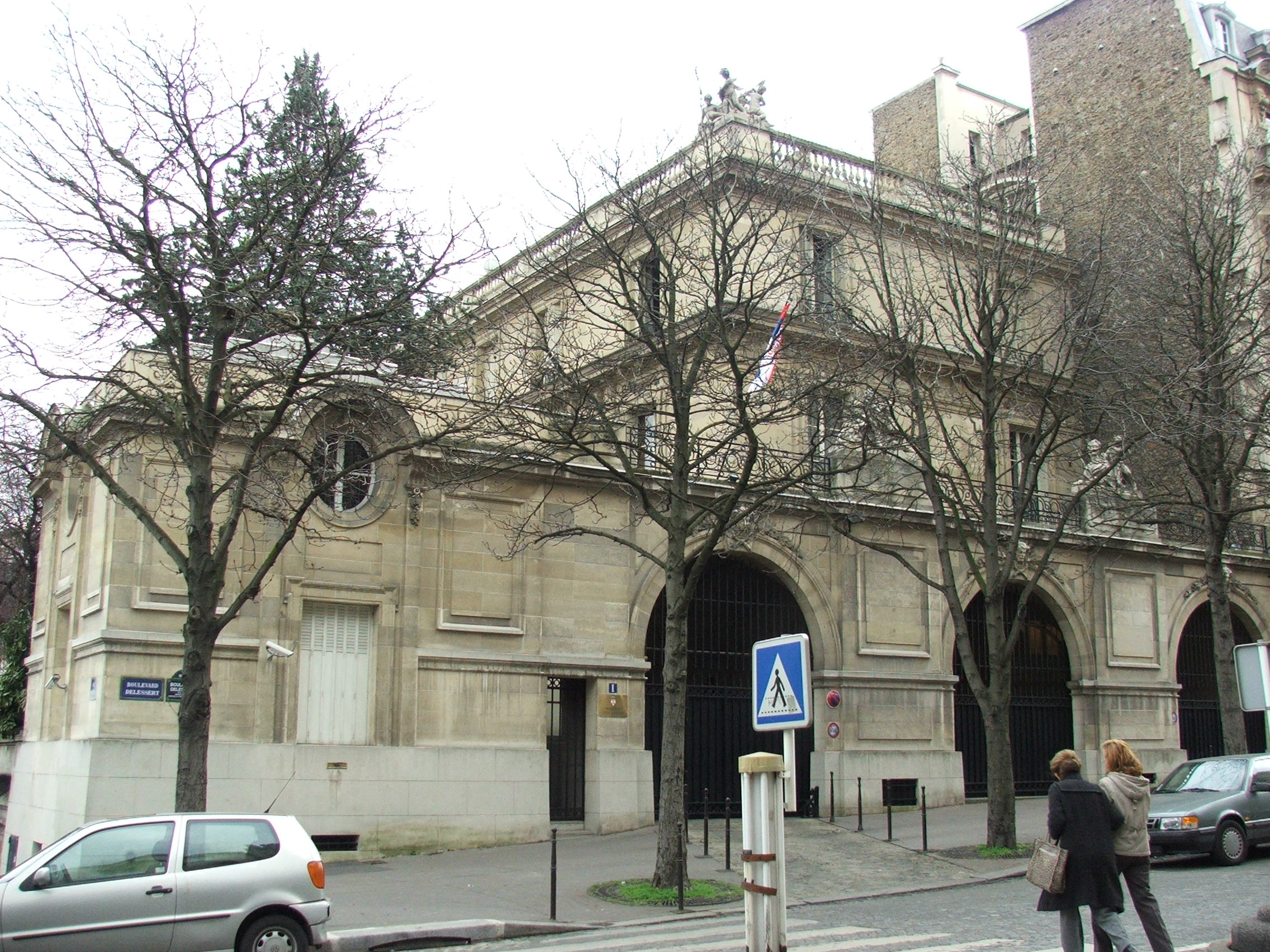 Hôtel de La Trémoille, residence of embassy of Serbia in Paris - France.